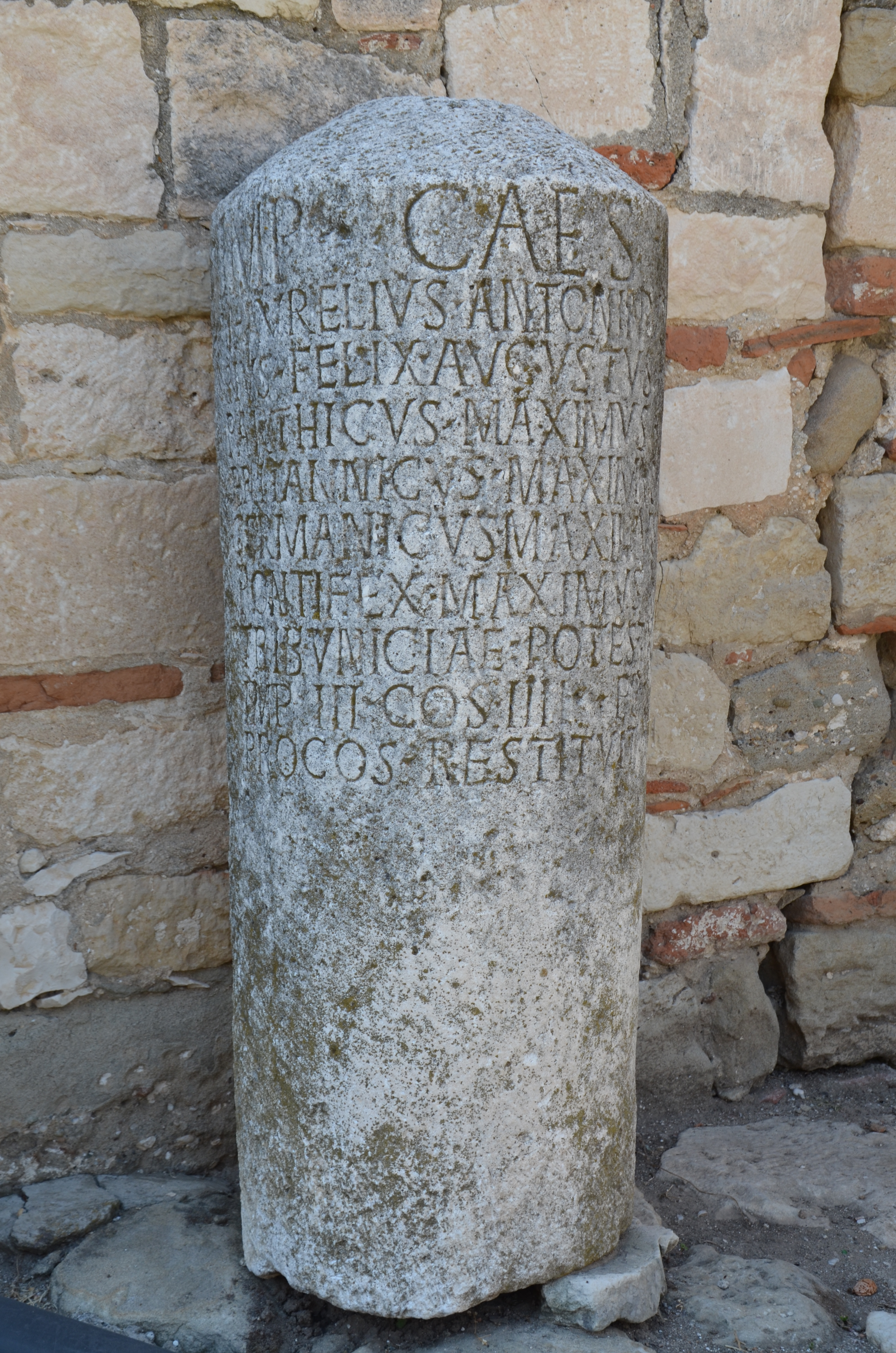 Miliaria from the southern branch of the Via Egnatia leading to Apollonia with dedication to Marcus Aurelius, Archaeological sites of Apollonia of Illyria. Located near Pojani, Albania See CIA p. 205 = LIA 00186 = AE 1999, 01421 = AE 2003, +01576, Epigraphik-Datenbank Clauss-Slaby